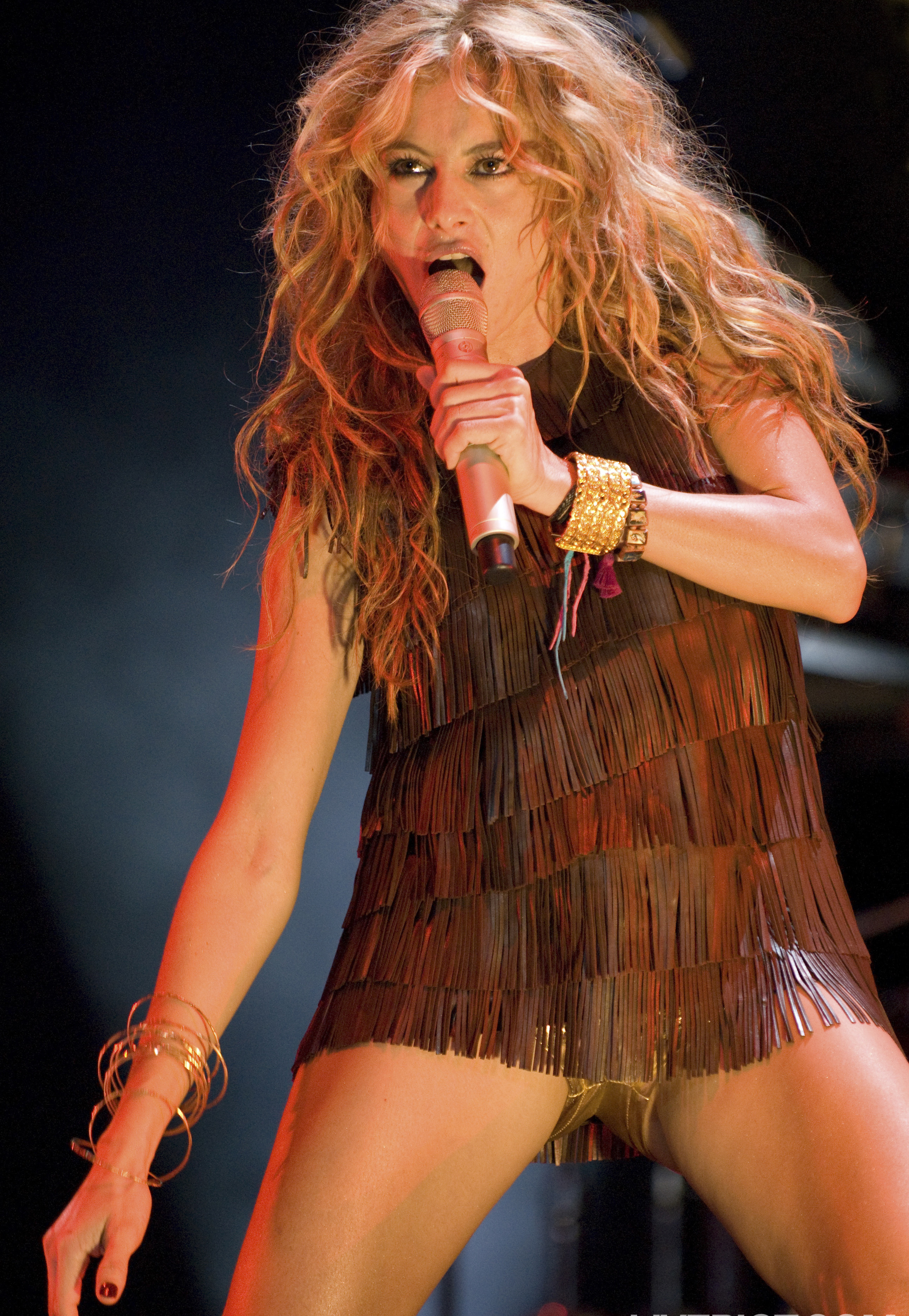 Paulina Rubio. Performing a live concert in the Asics Music Festival, Barcelona, October 2007.